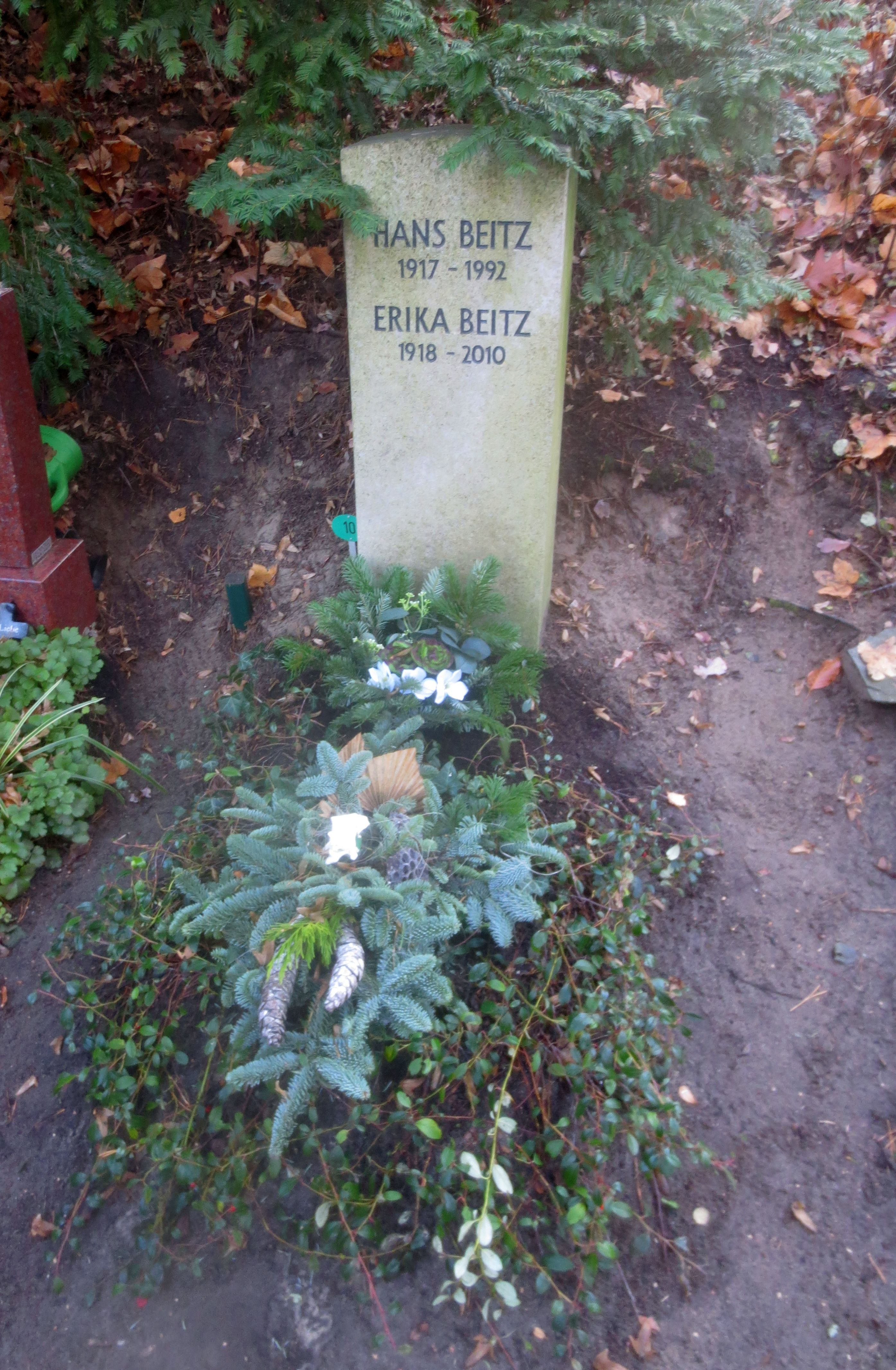 Grave of the politician Hans Beitz (1917-1992) on the Friedhof Heerstraße cemetery in Berlin-Westend (grave no. II-Ur 2-10).